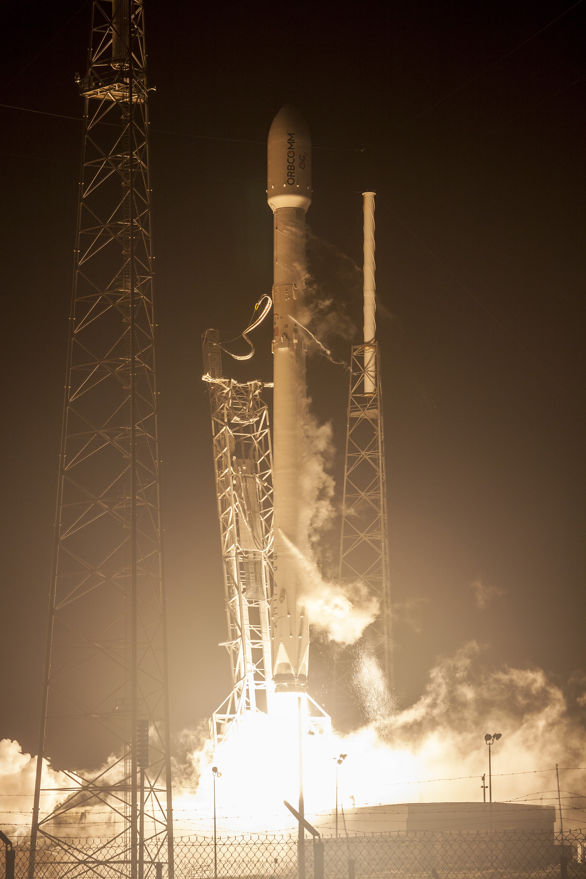 ORBCOMM-2